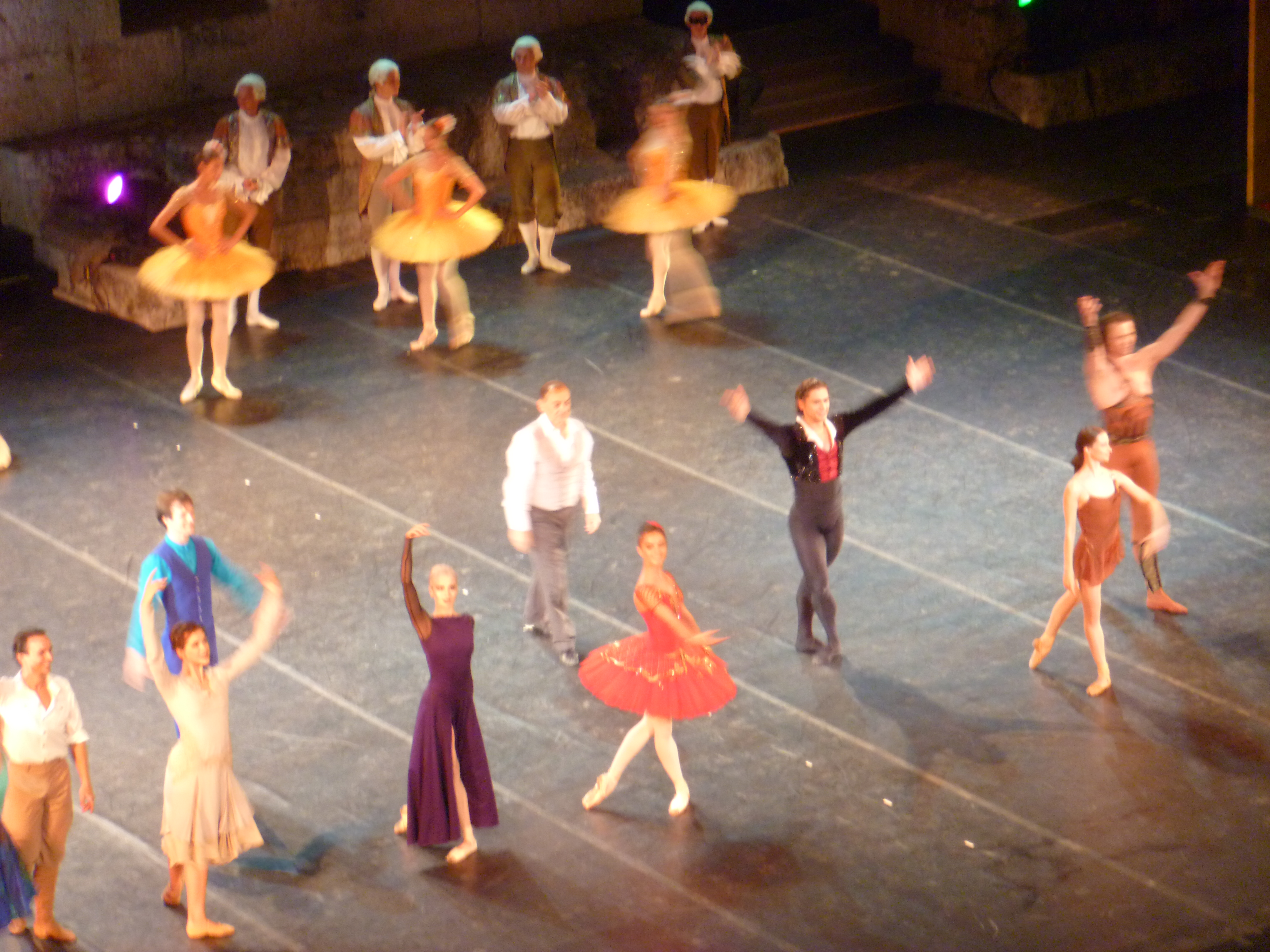 The Bolshoi Ballet in the Odeon of Herodes Atticus in Athens, Greece, on September 19, 2017